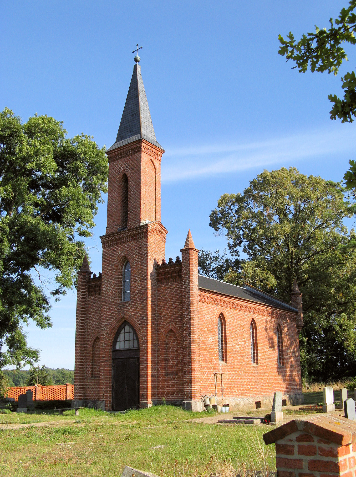 Church in Rottmannshagen, disctrict Demmin, Mecklenburg-Vorpommern, Germany